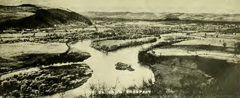 From Waverly, N.Y., The Ladies' society, First Presbyterian church